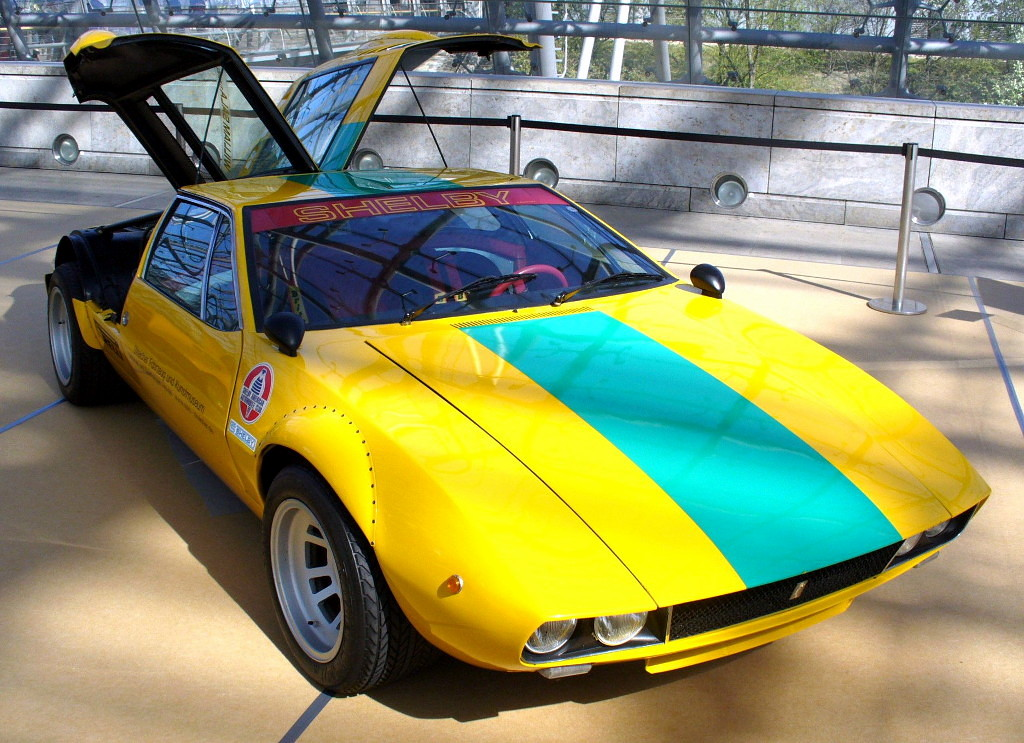 De Tomaso Mangusta Gruppe 4 GT